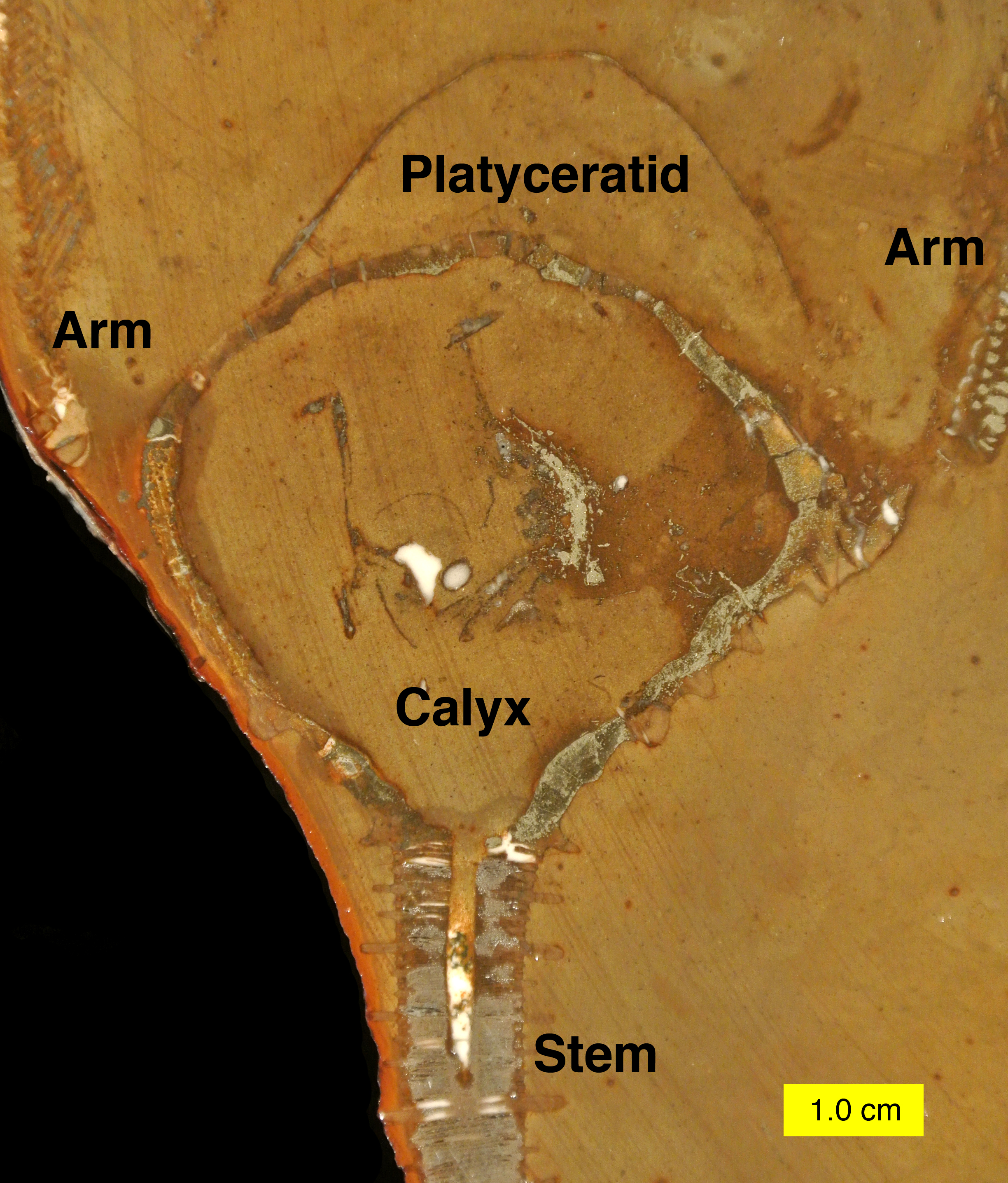 Cross-section of a Lower Carboniferous crinoid with an in situ parasitic platyceratid gastropod.